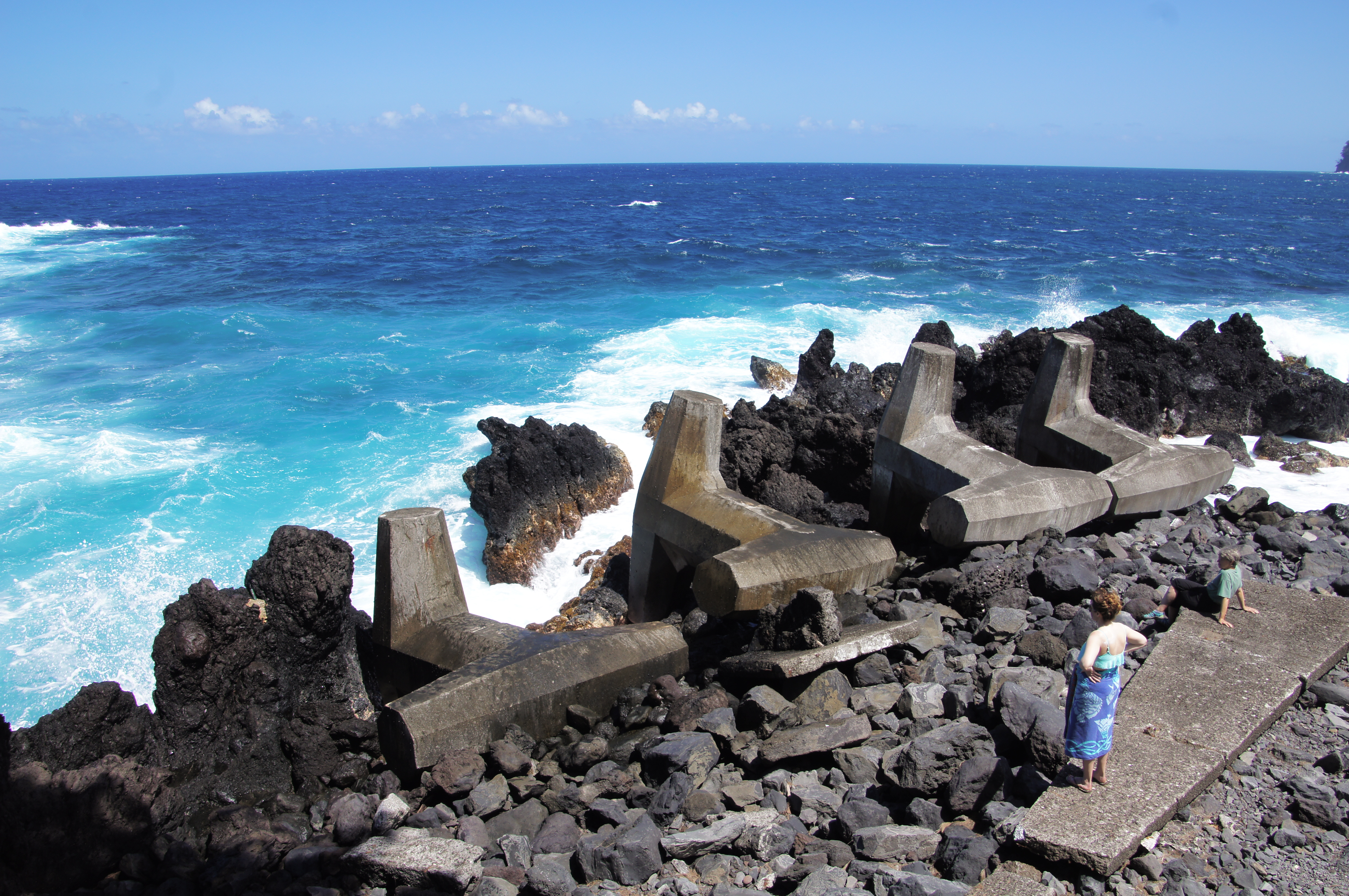 Concrete reinforcements at Laupahoehoe, Big Island, Hawaii.